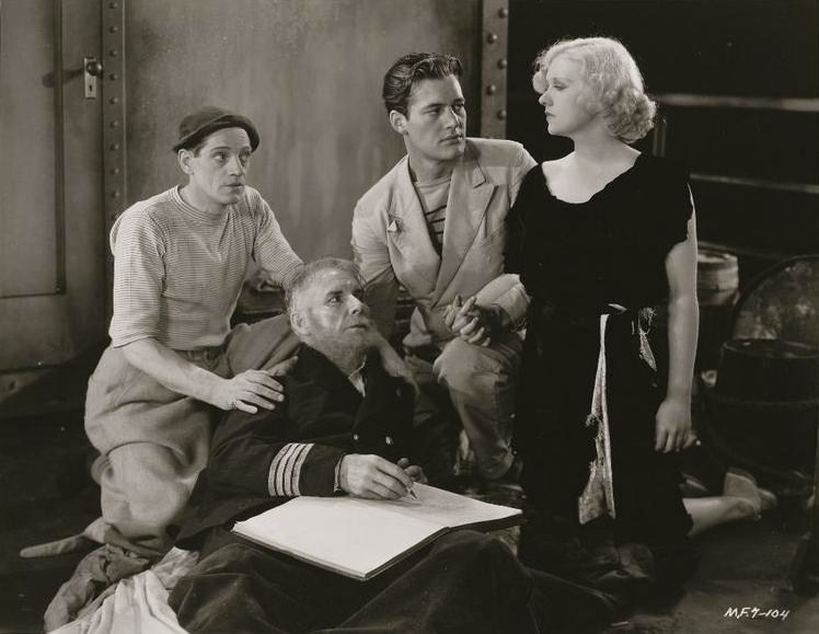 Left to right: Eddie Borden, Clarence Geldart, Charles Starrett, and Anita Page in Jungle Bride (1933) - publicity still (cropped)